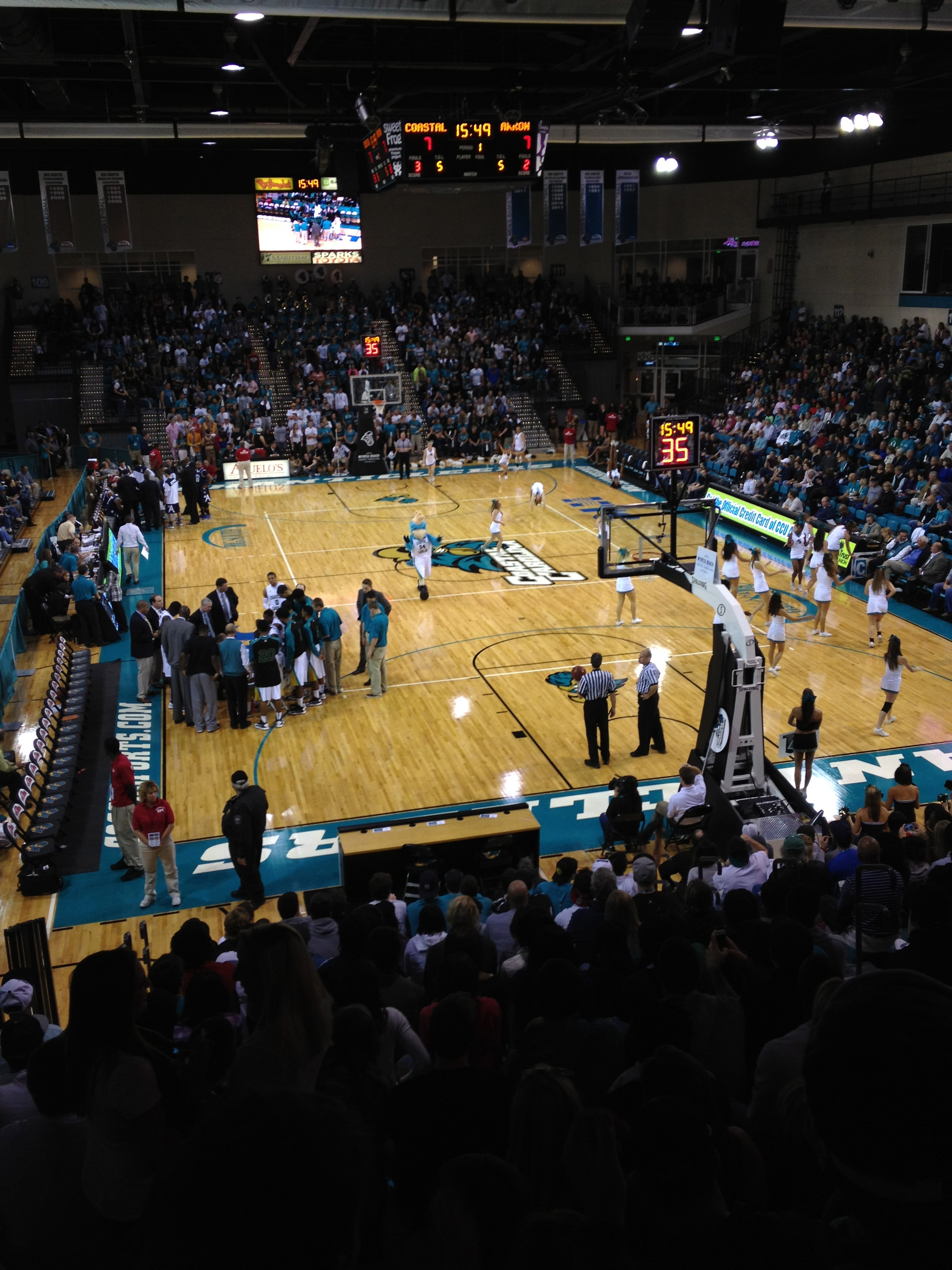 Photo taken from the first game inside the HTC Center.